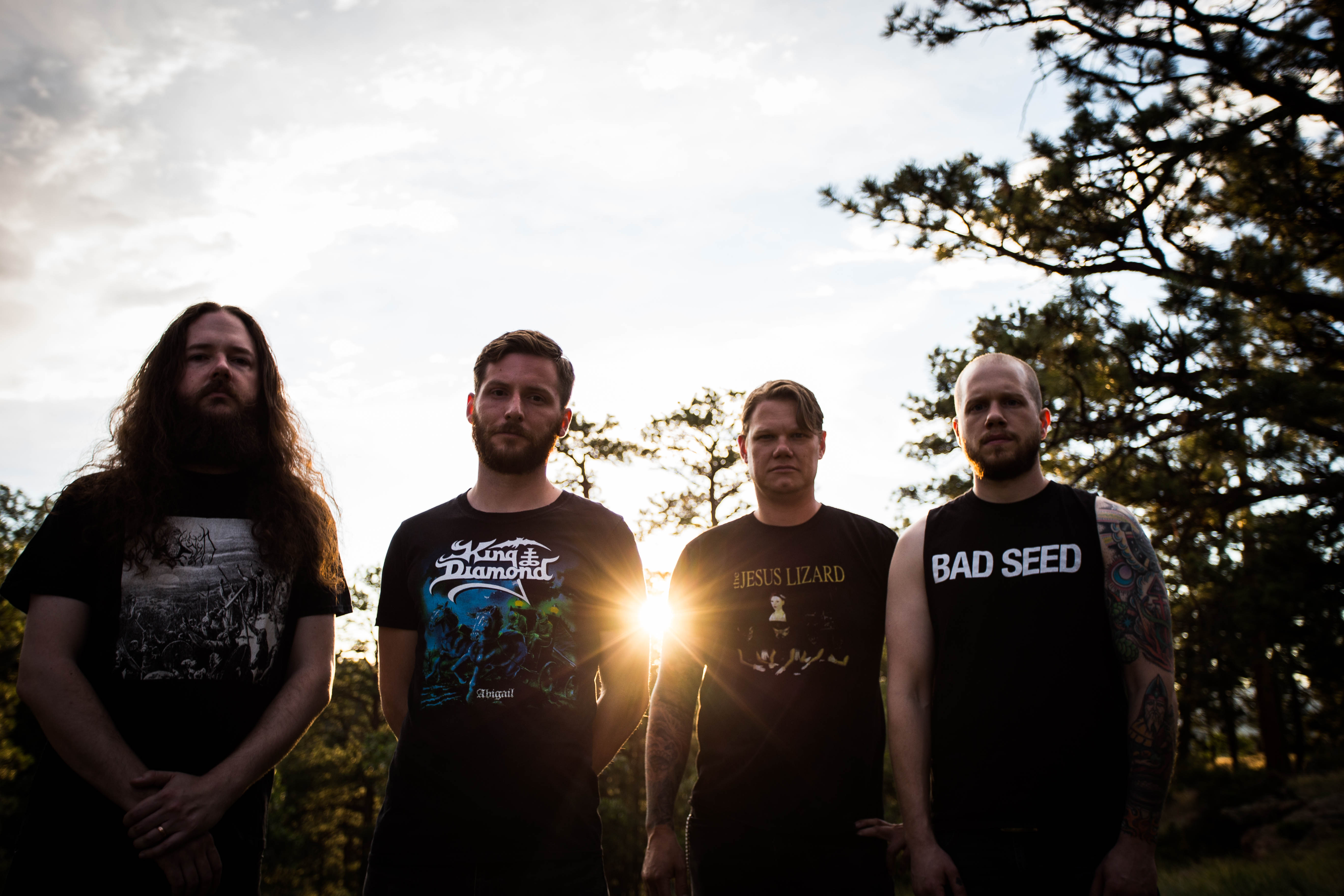 Promotional of Denver metal band Khemmis photo taken by Alvino Salcedo (